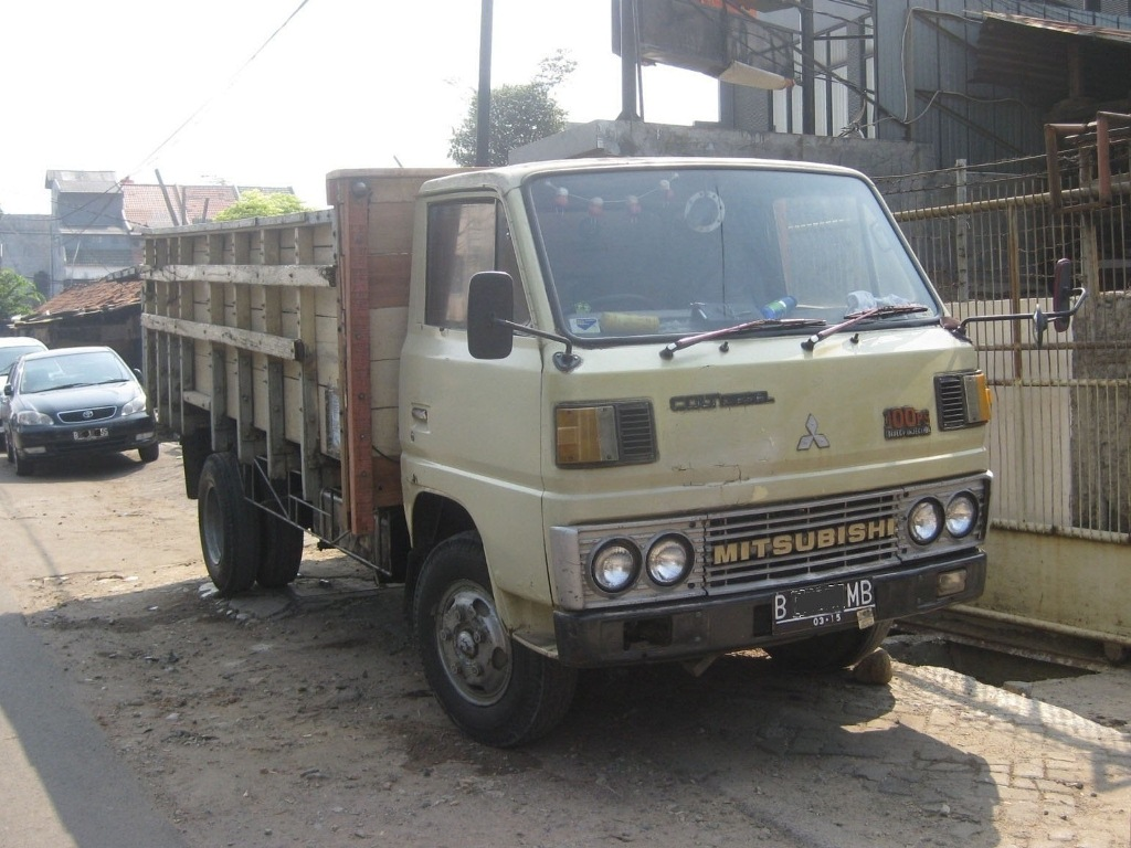 Mitsubishi Canter Colt Diesel 100PS (FE114), photographed in Jakarta, Indonesia.